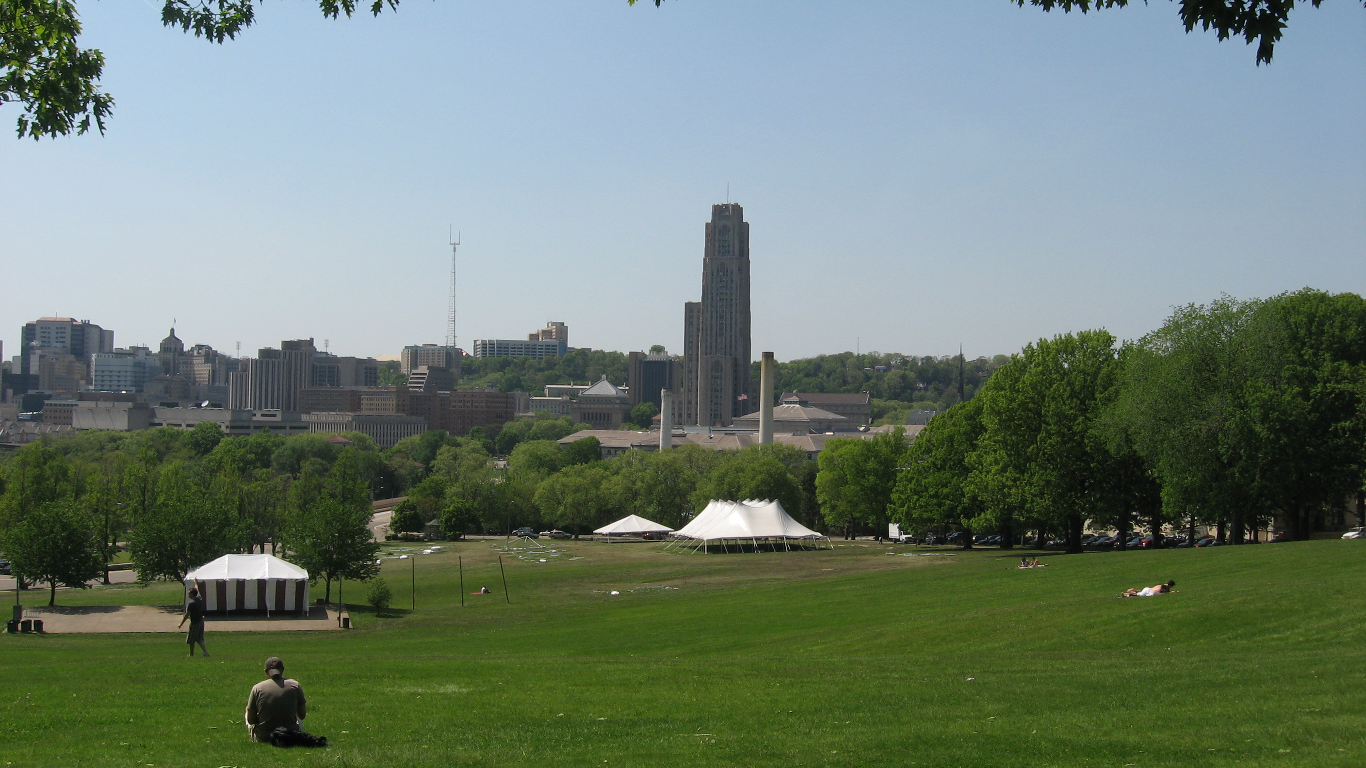 View of Oakland from Schenley Park 40°26′23.3″N 79°56′41.3″W / 40.439806°N 79.944806°W